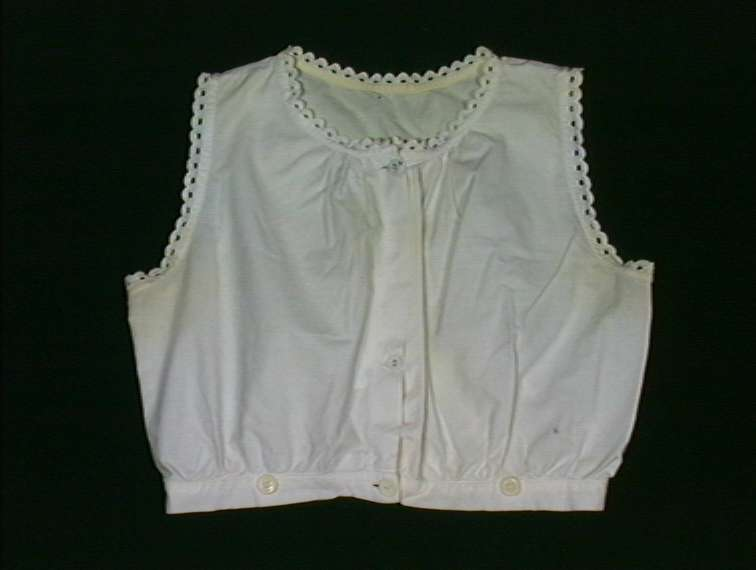 Bodice underwear from Stryn, Sogn og Fjordane, Norway.